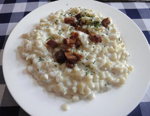 harusky